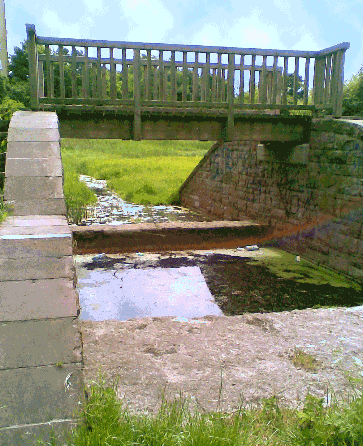 The basin of retention along the river Panke in Berlin-Gesundbrunnen